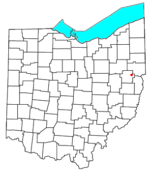 Locator map of the unincorporated community of Mechanicstown in Carroll County, Ohio, United States.